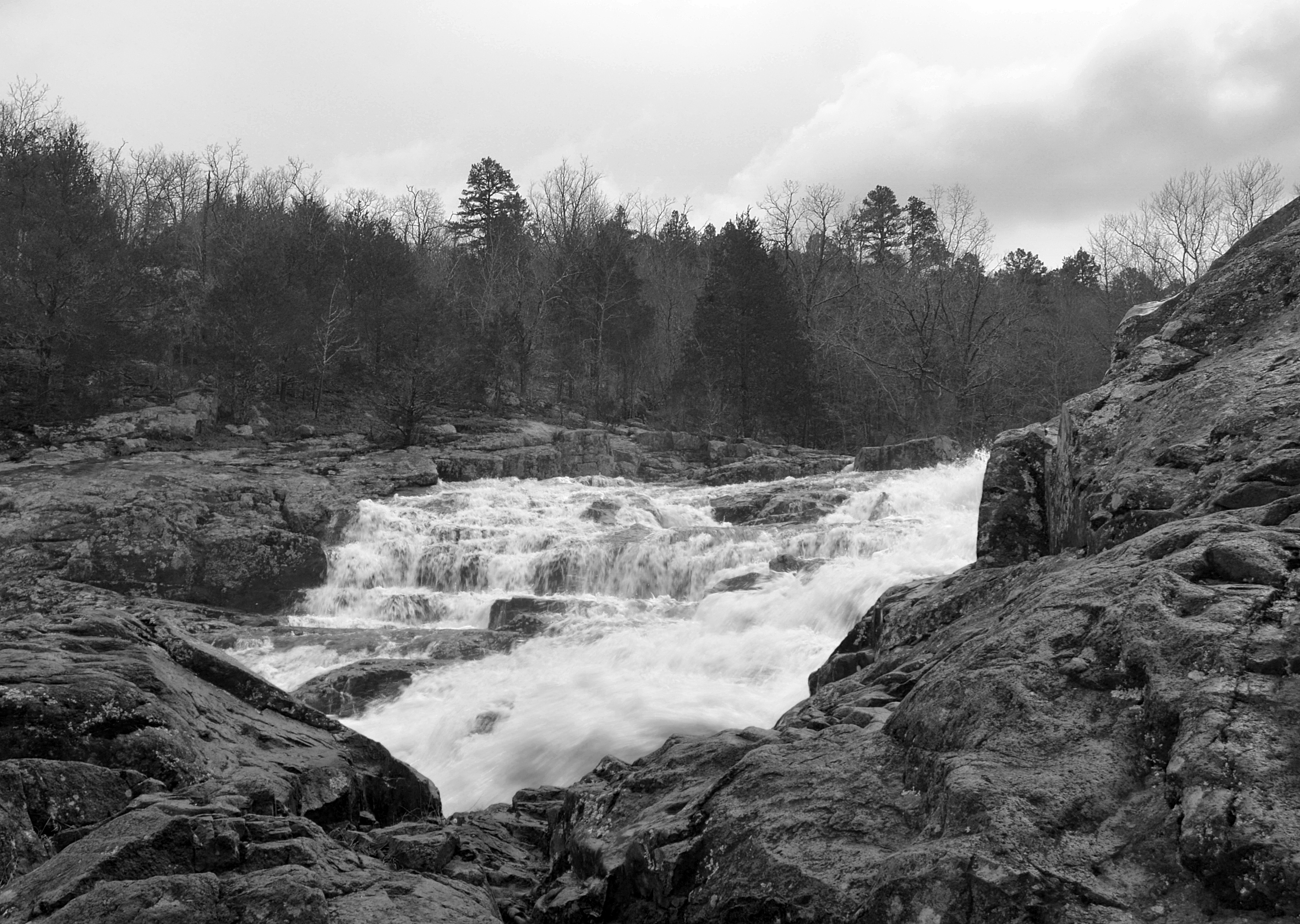 Rocky Falls in the Ozark National Scenic Riverways National Park in Shannon County, Missouri.